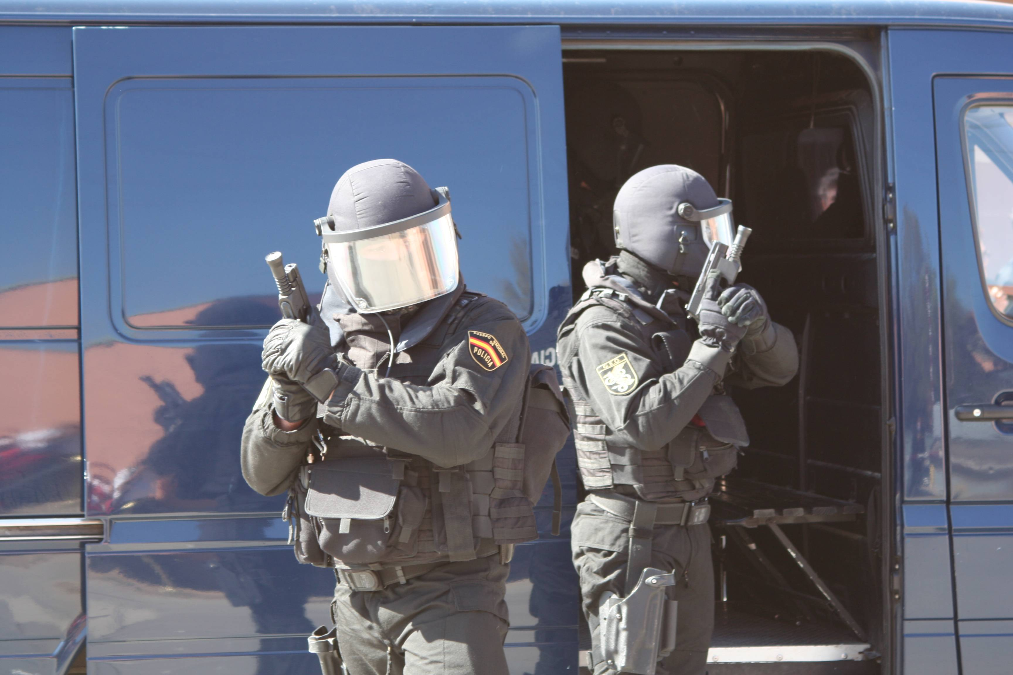 The Special Group of Operations deploy.